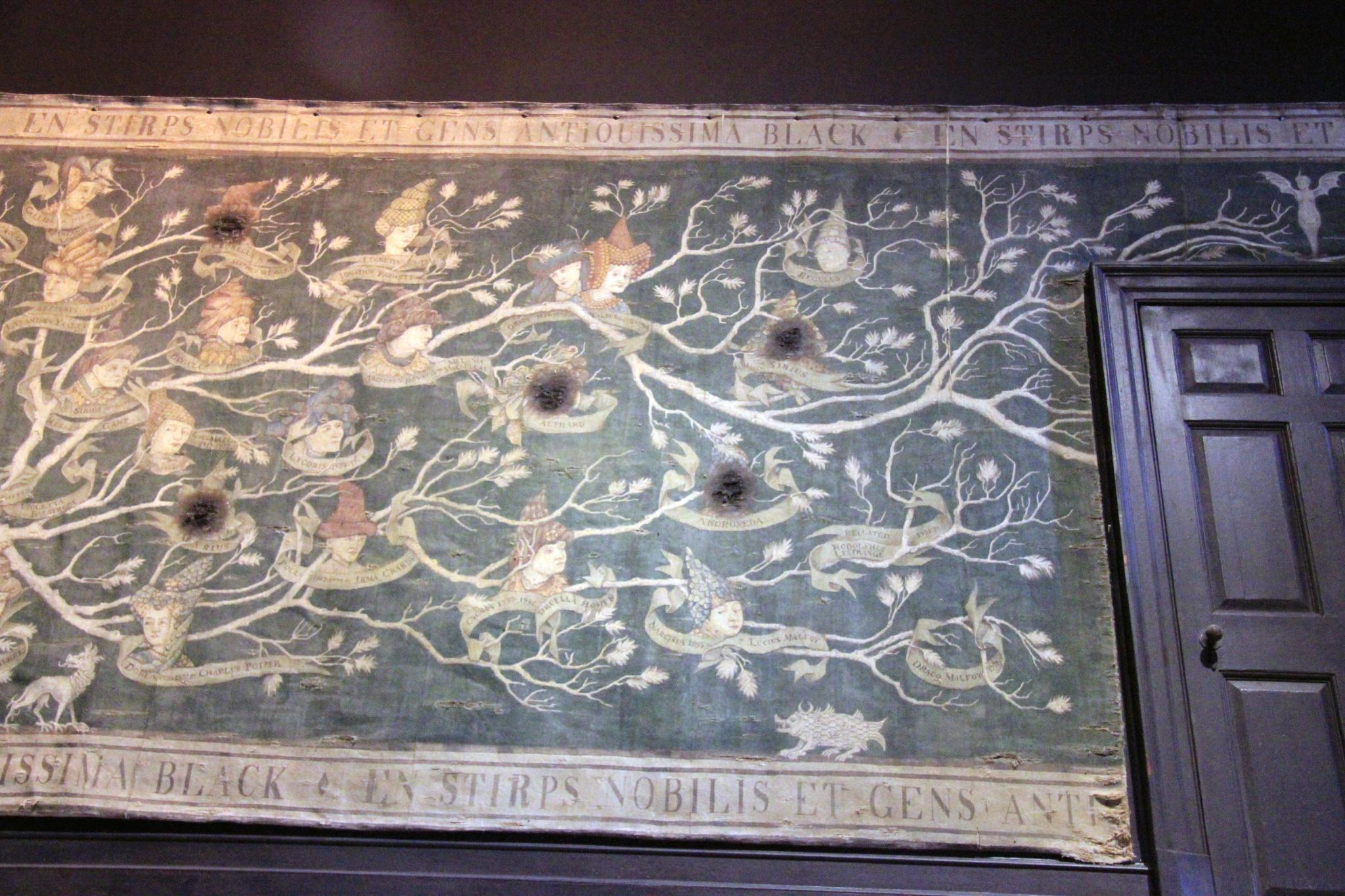 Warner Bros. Studio Tour London: The Making of Harry Potter.